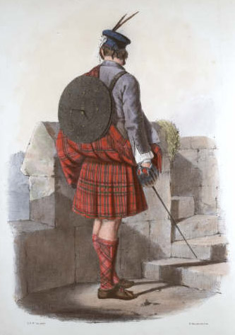 "MacGillivray". A plate illustrated by R. R. McIan, from James Logan's The Clans of the Scottish Highlands, published in 1845.